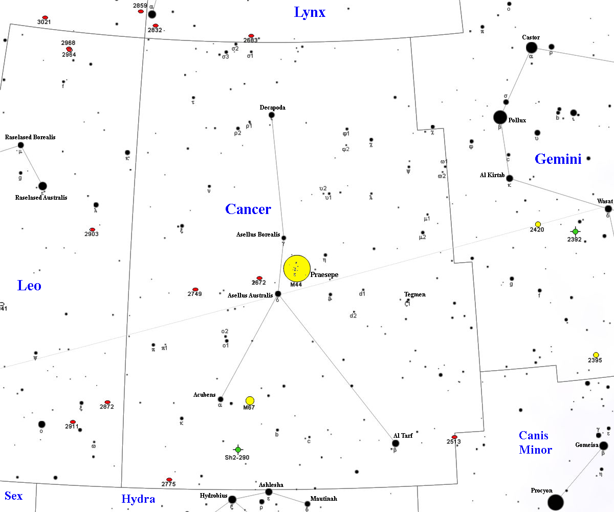 Cancer constellation map, with DSOs